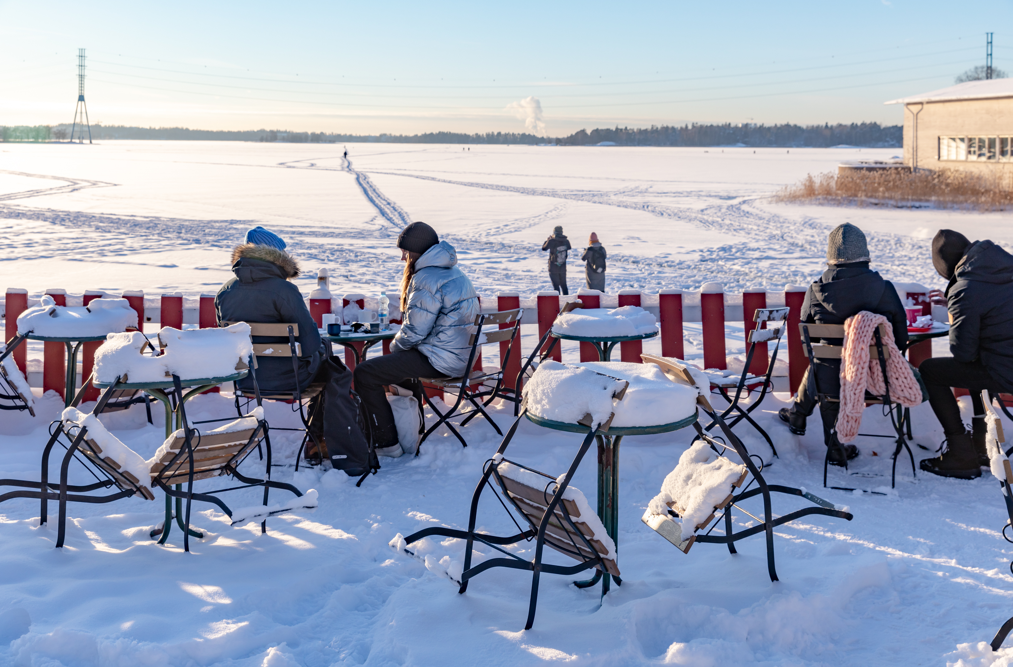 Open-air cafe on a Sunday afternoon.